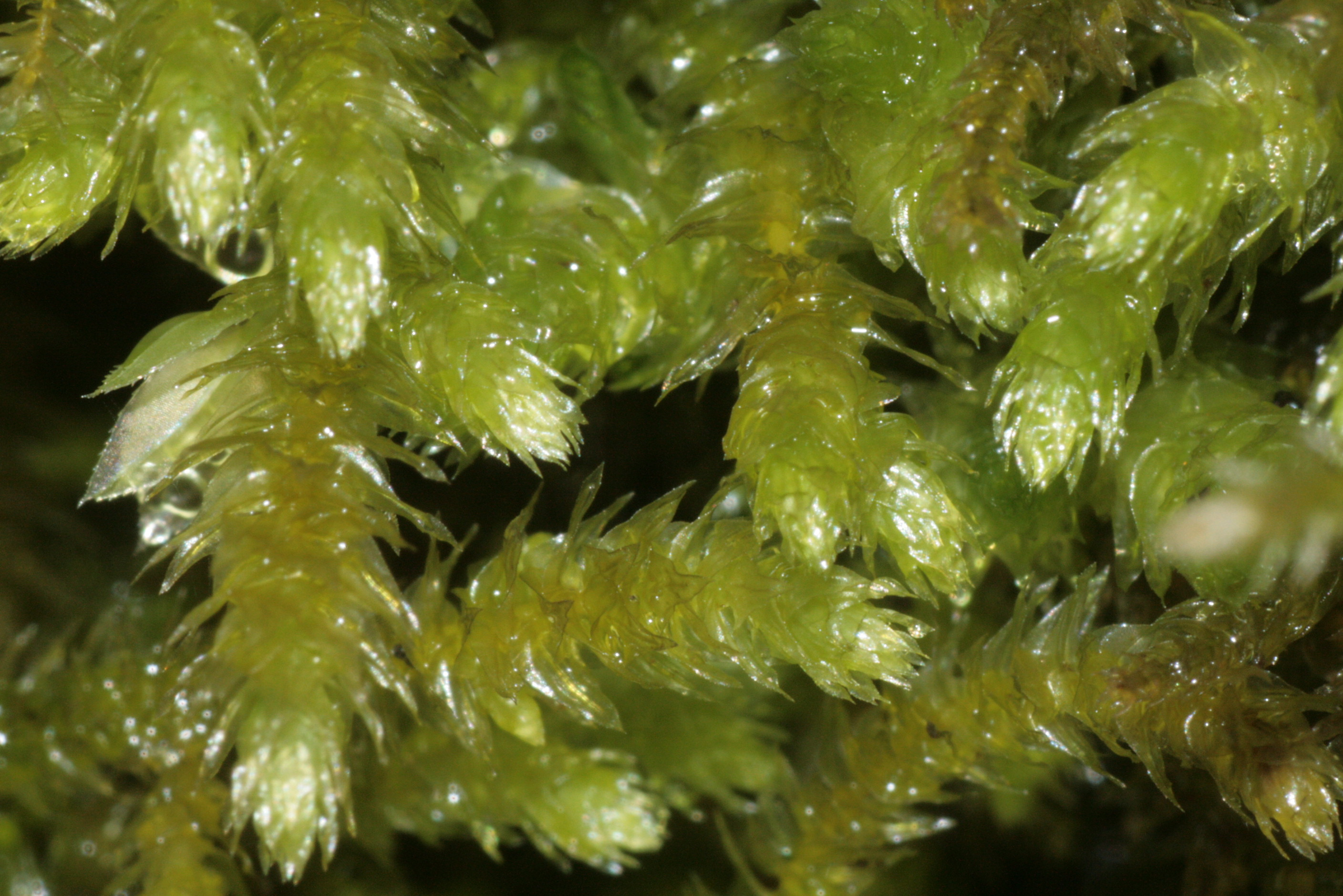 Eurhynchium striatum